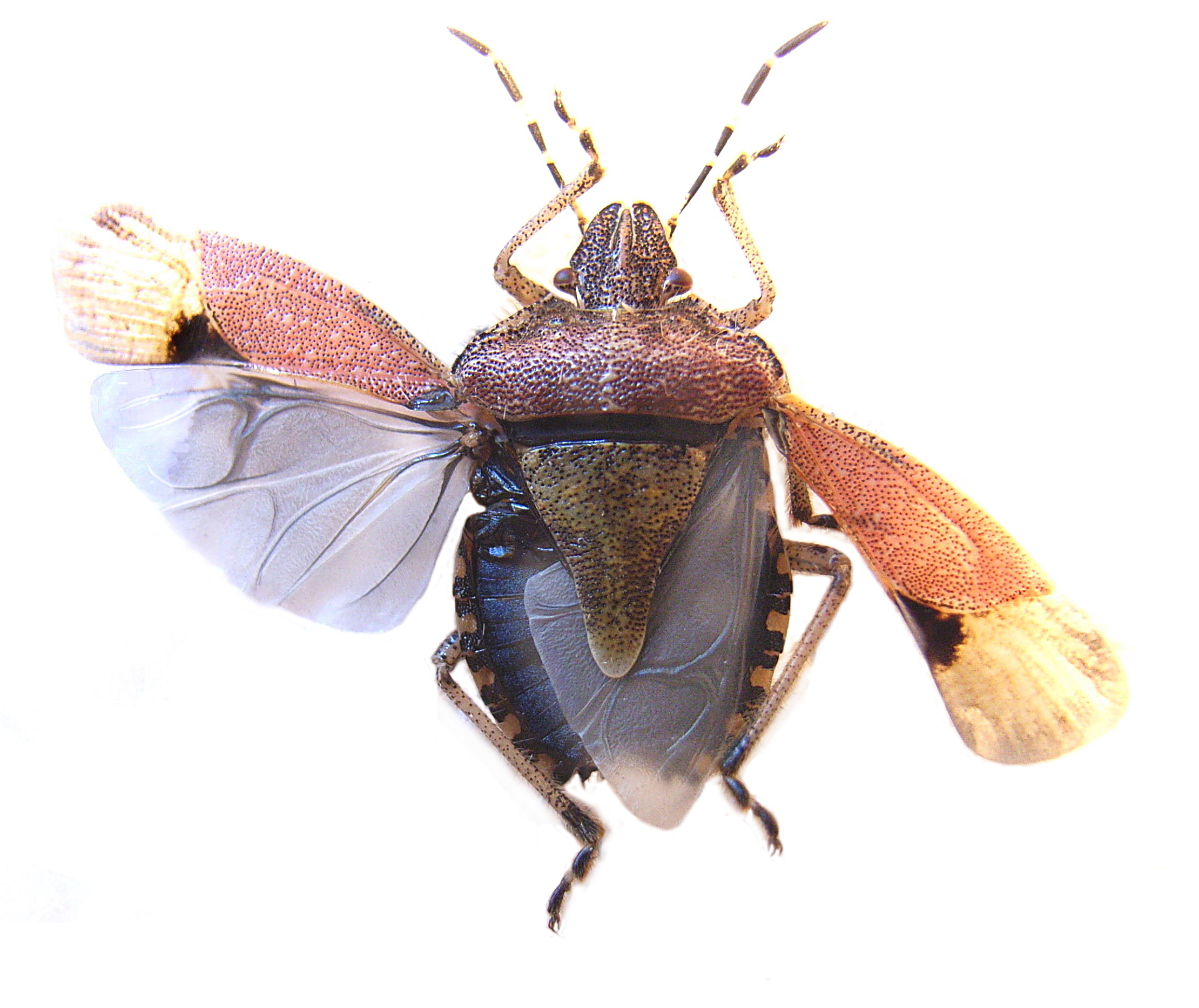 Dolycoris baccarum wings left side opened right forwing opened, right hind wing folded